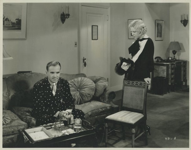 Vintage photo featuring Al Jolson and Glenda Farrell from the Warner Brothers film Go Into Your Dance (1935)